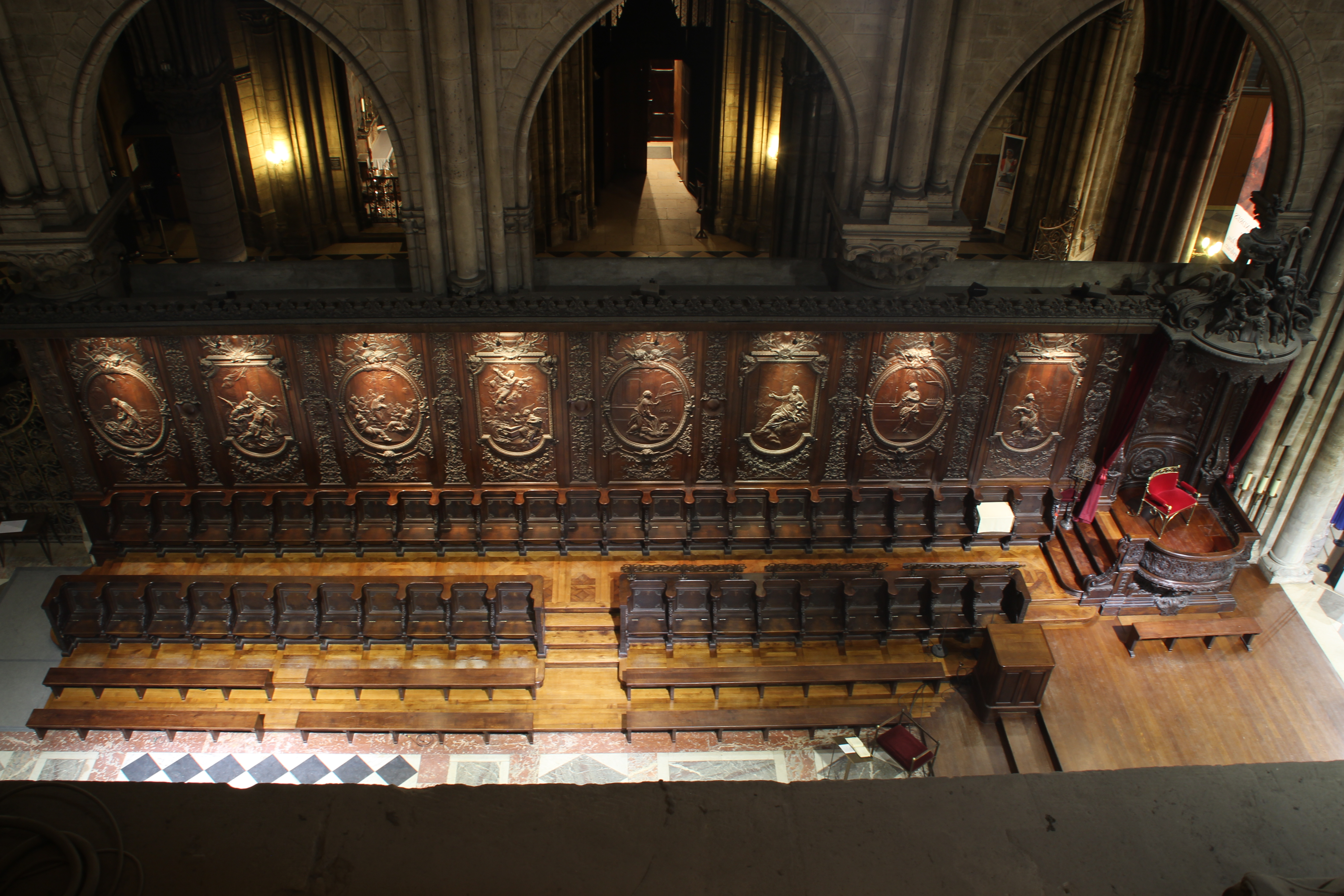 Visit of the cathedral during the exhibition of the new bells in Notre-Dame de Paris, France in 2013.